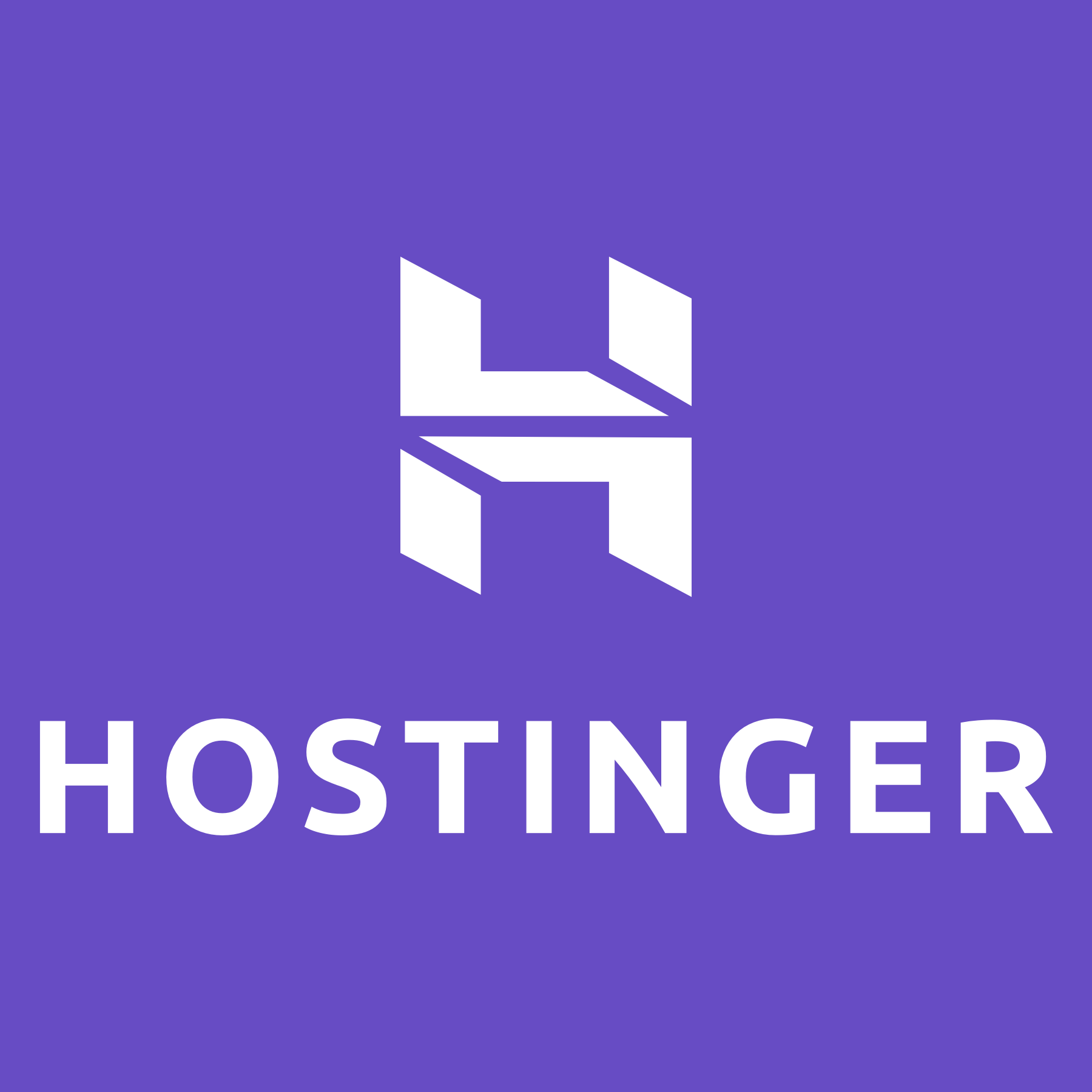 Hostinger logo